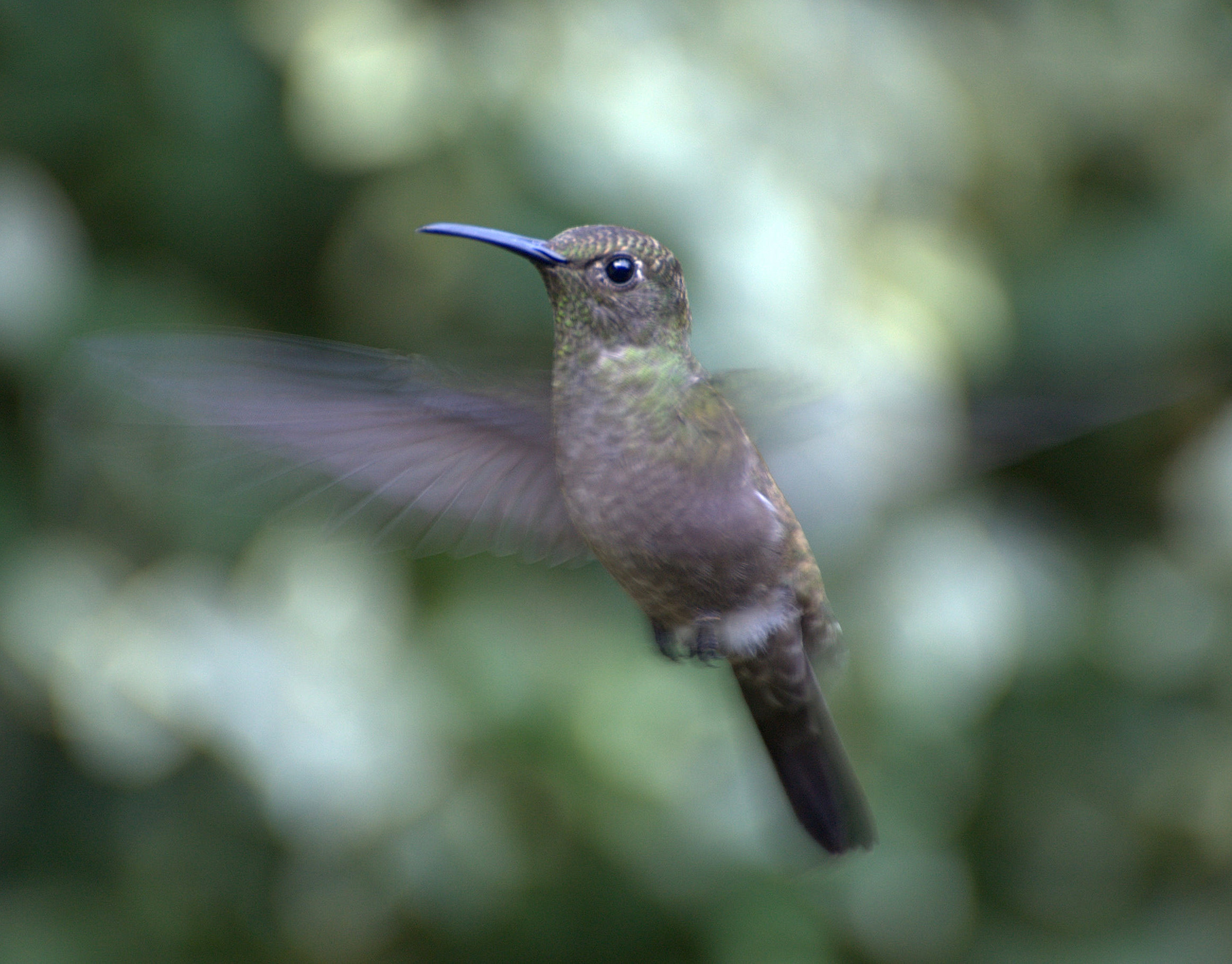 (Aphantochroa cirrochloris)